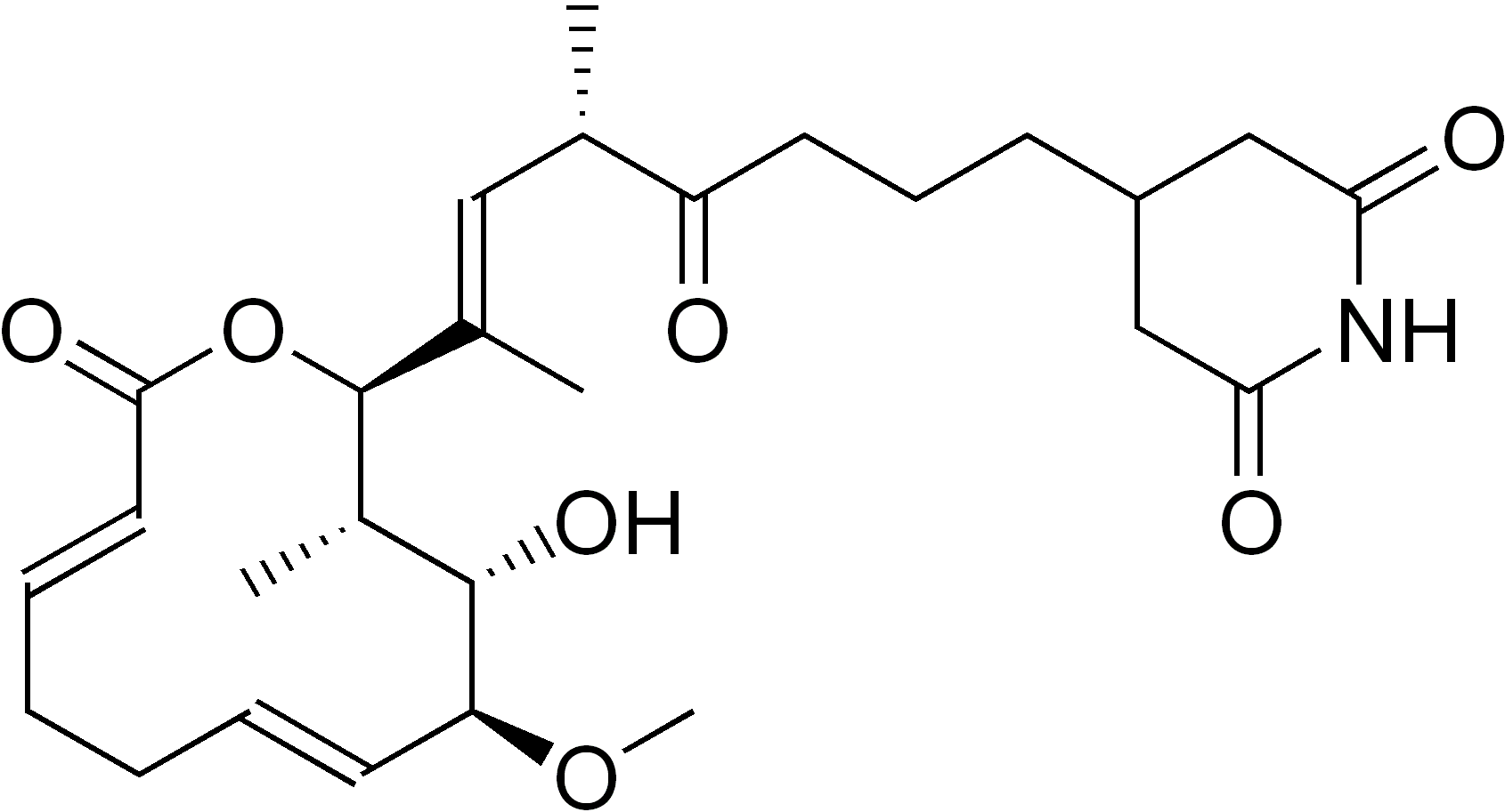 chemical structure of Isomigrastatin